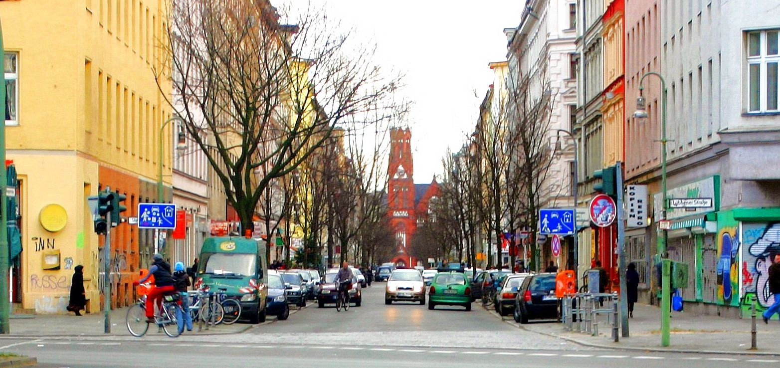 Wrangelstrasse in Berlin Kreuzberg, view from corner Lübbener Straße southeastwards to Protestant Tabor Church (Evangelische Taborkirche) with war-damaged tower stump